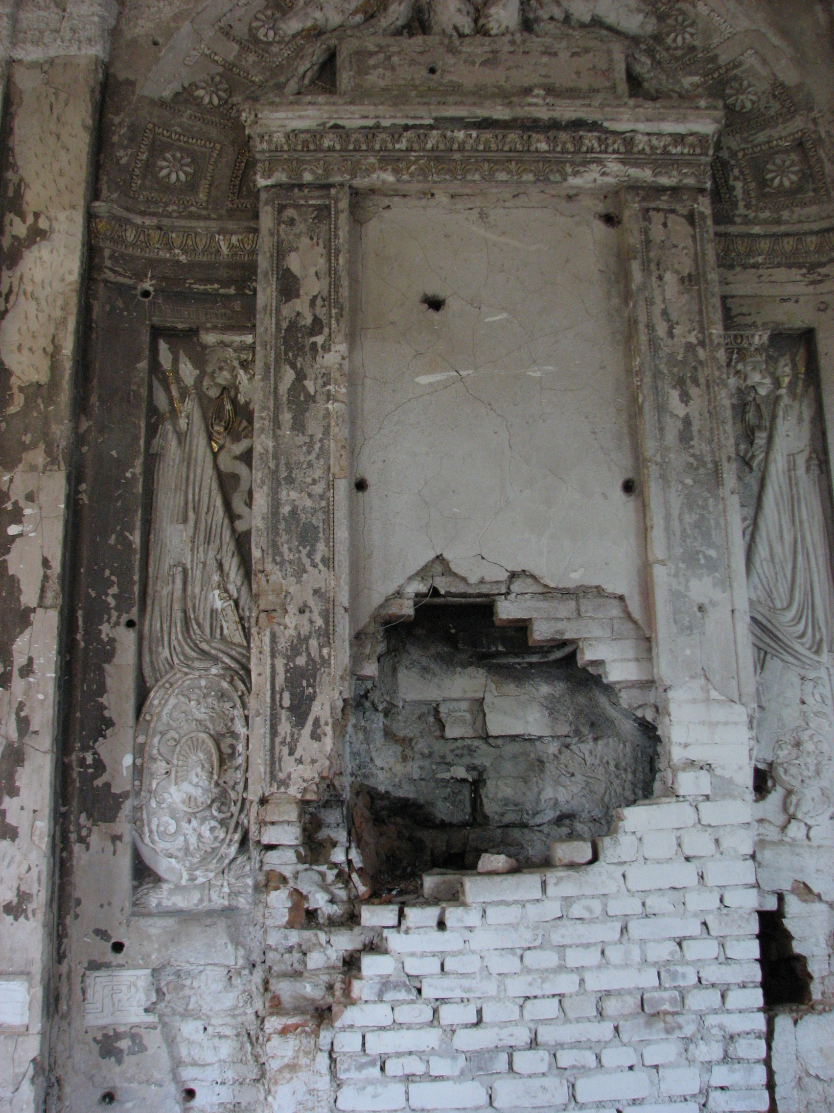 Gatchina Palace, Chesmen gallery